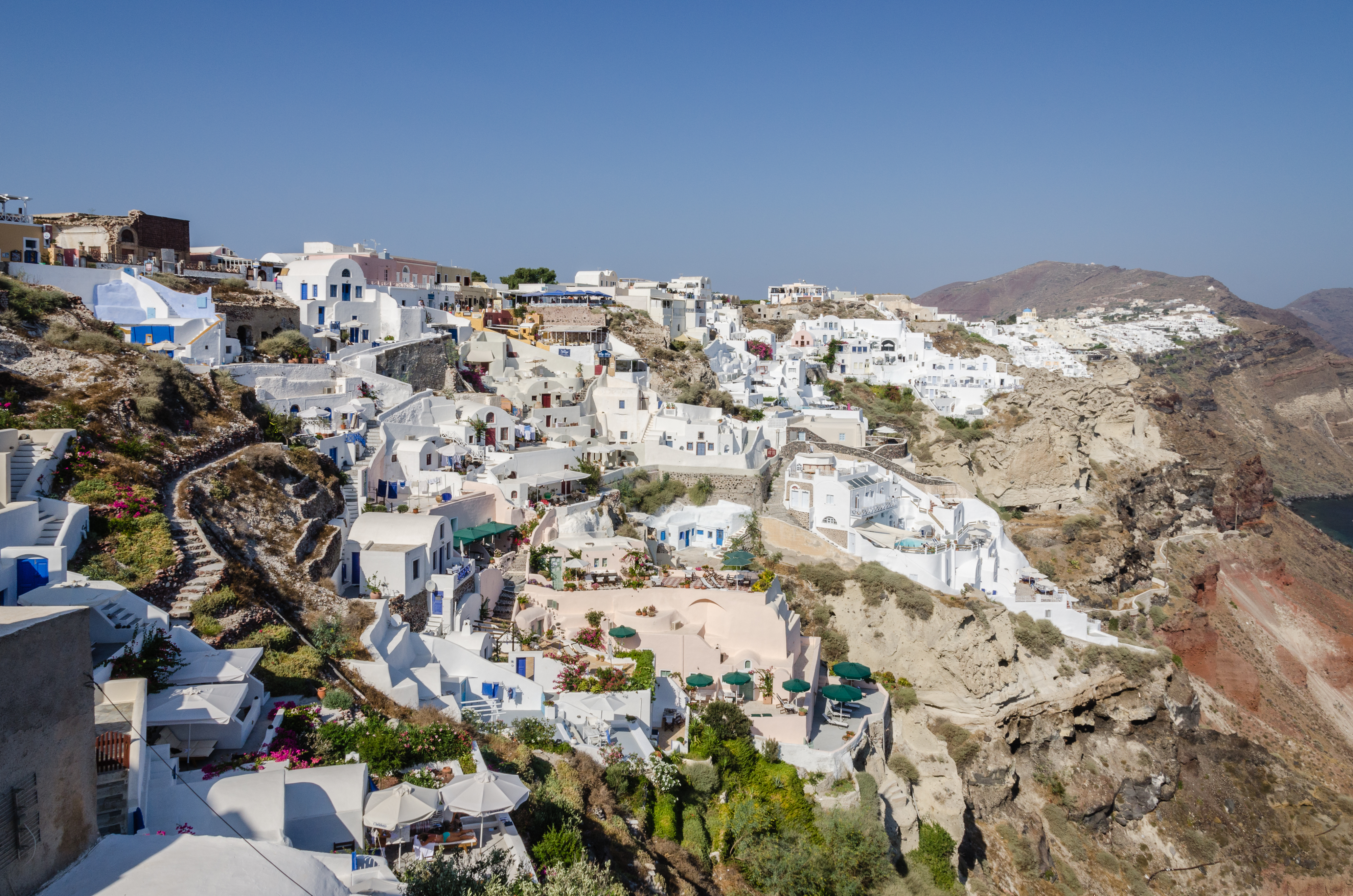 Oia, Santorini, Greece.